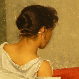 Nape, detail of La malade painting by Félix Vallotton